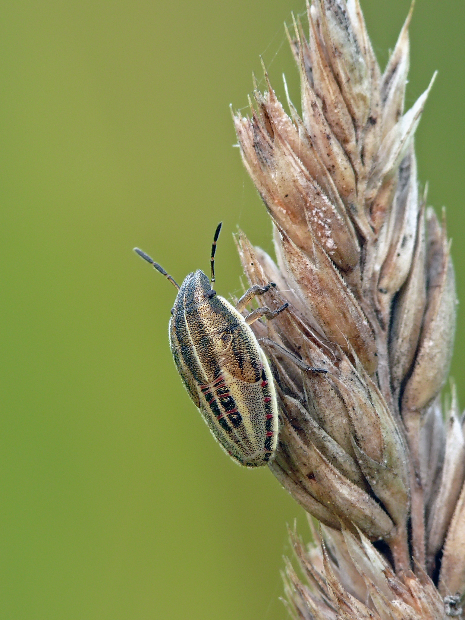 Bishop's Mitre Bug's (Aelia acuminata) nymph.